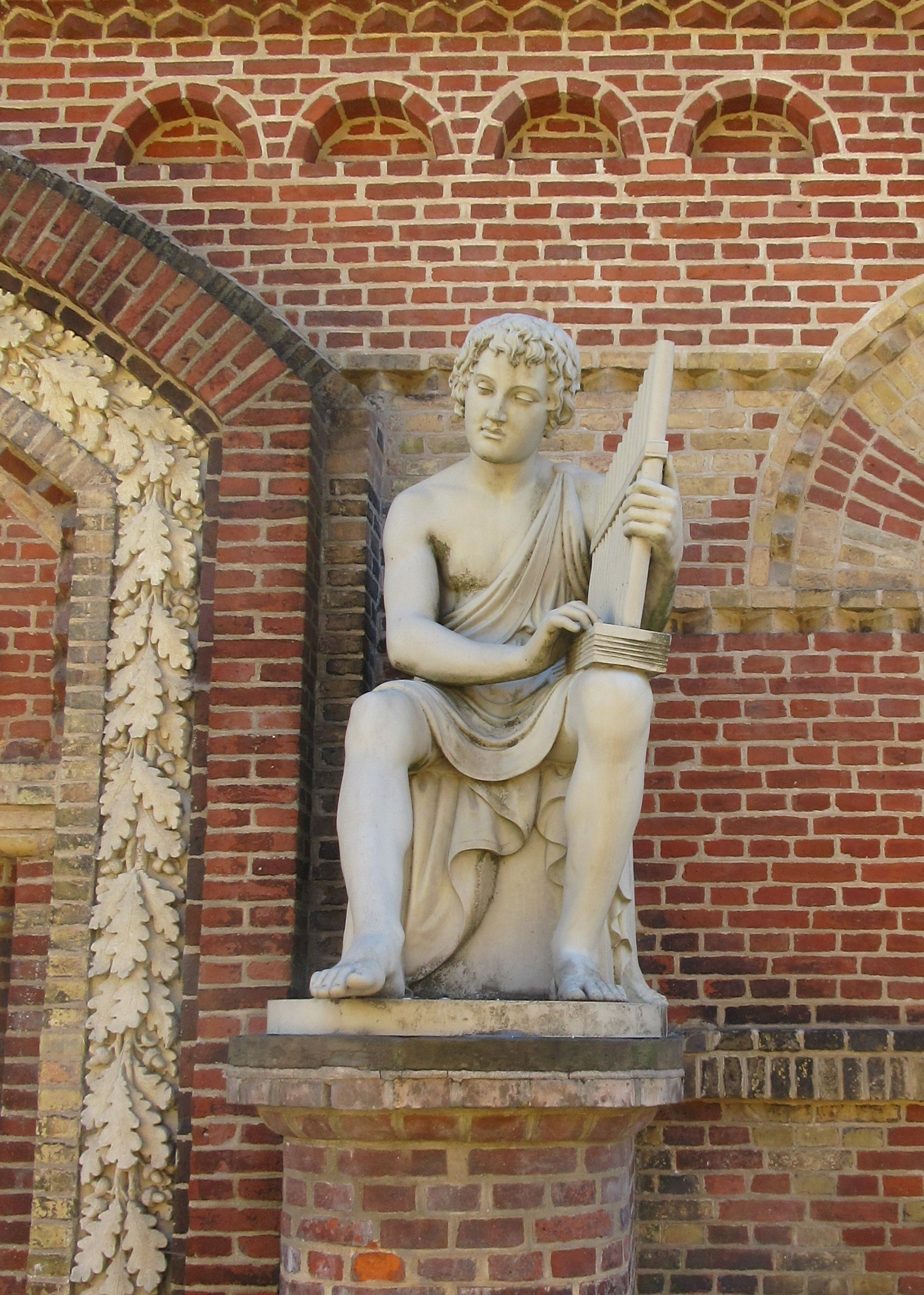 The statue A Blind Boy at the main entrance of the former Institute for the Blind in Kristianiagade in Copenhagen, Denmark